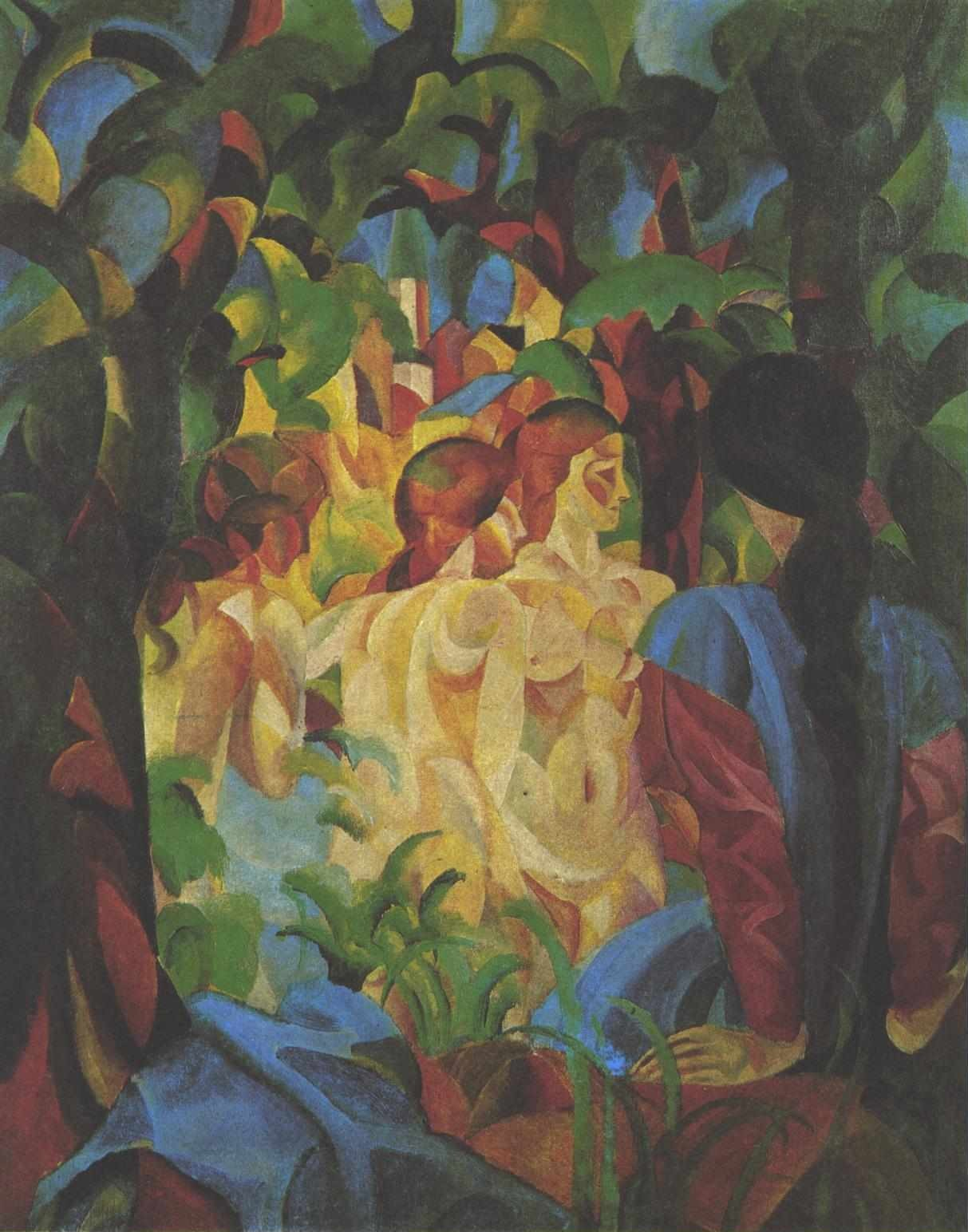 Bathing girls with town in background